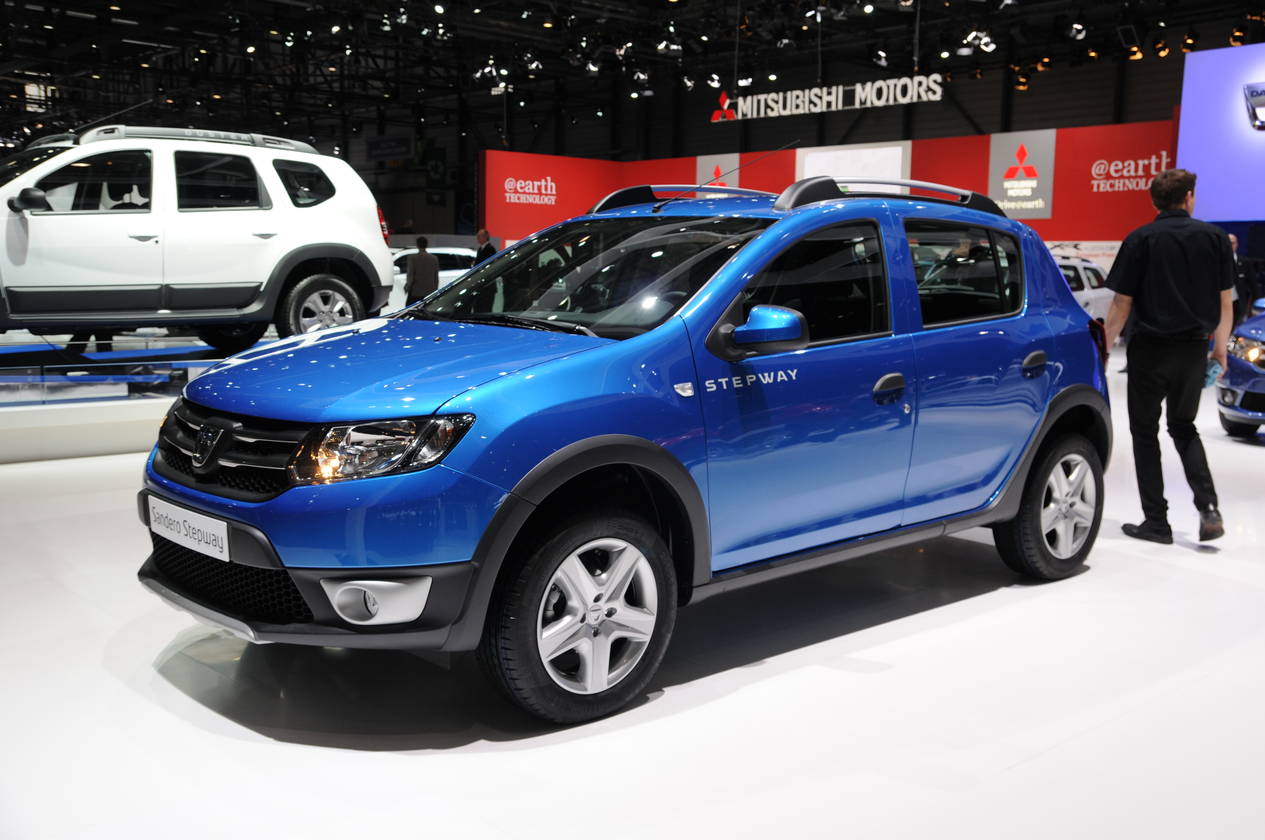 Geneva Motor Show 2014 (photo taken on the first press day)